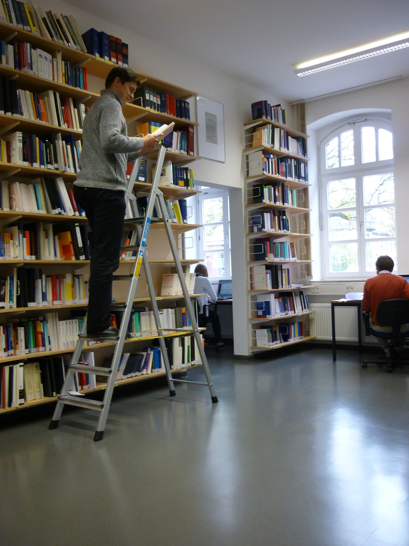 Institute for Information, Telecommunication and Media Law, Muenster, Germany. ITM Library